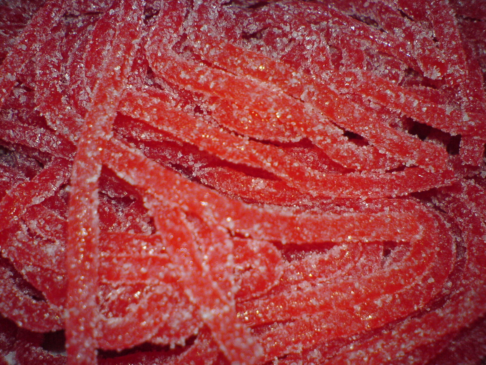 Sweets colored with Allura Red AC, close up view